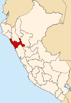 Location of the La Libertad region in Peru Created by User:StarbucksFreak - Mar. 2005